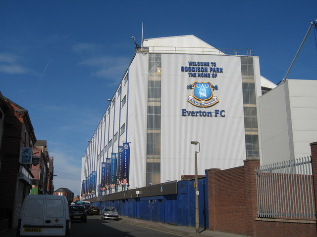 Everton Football Club's Goodison Park